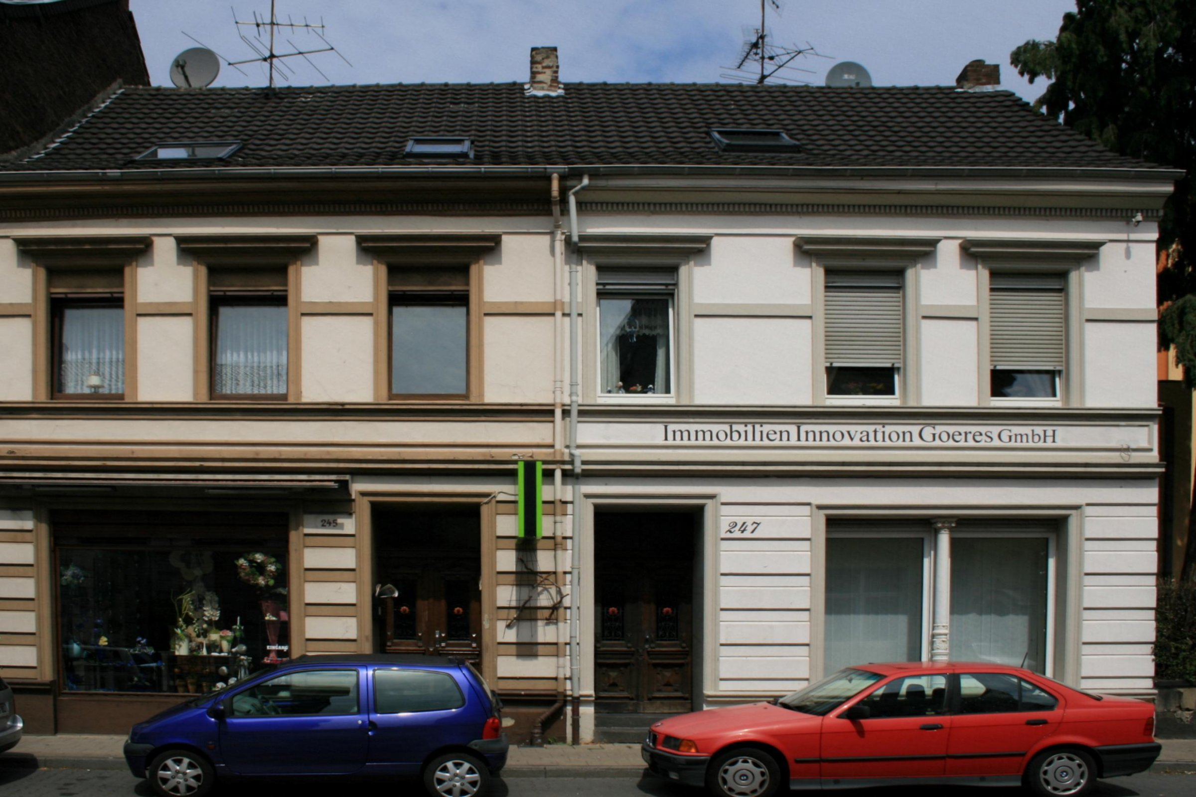 Cultural heritage monument No. H 043 in Mönchengladbach